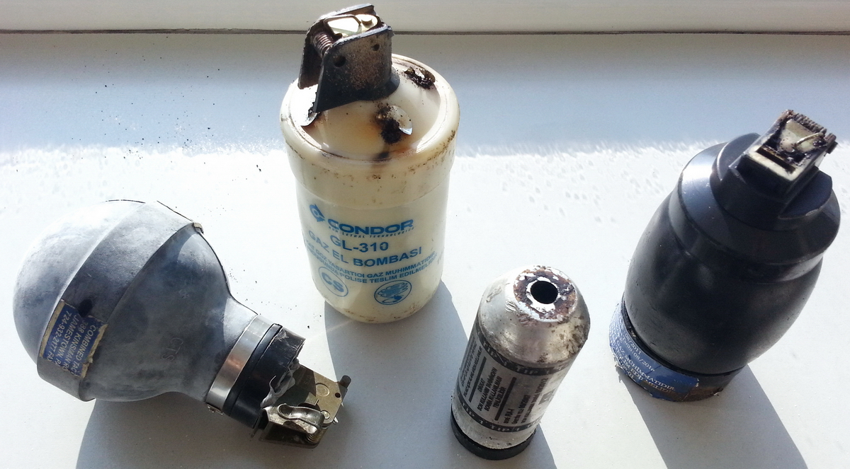 Tear gas